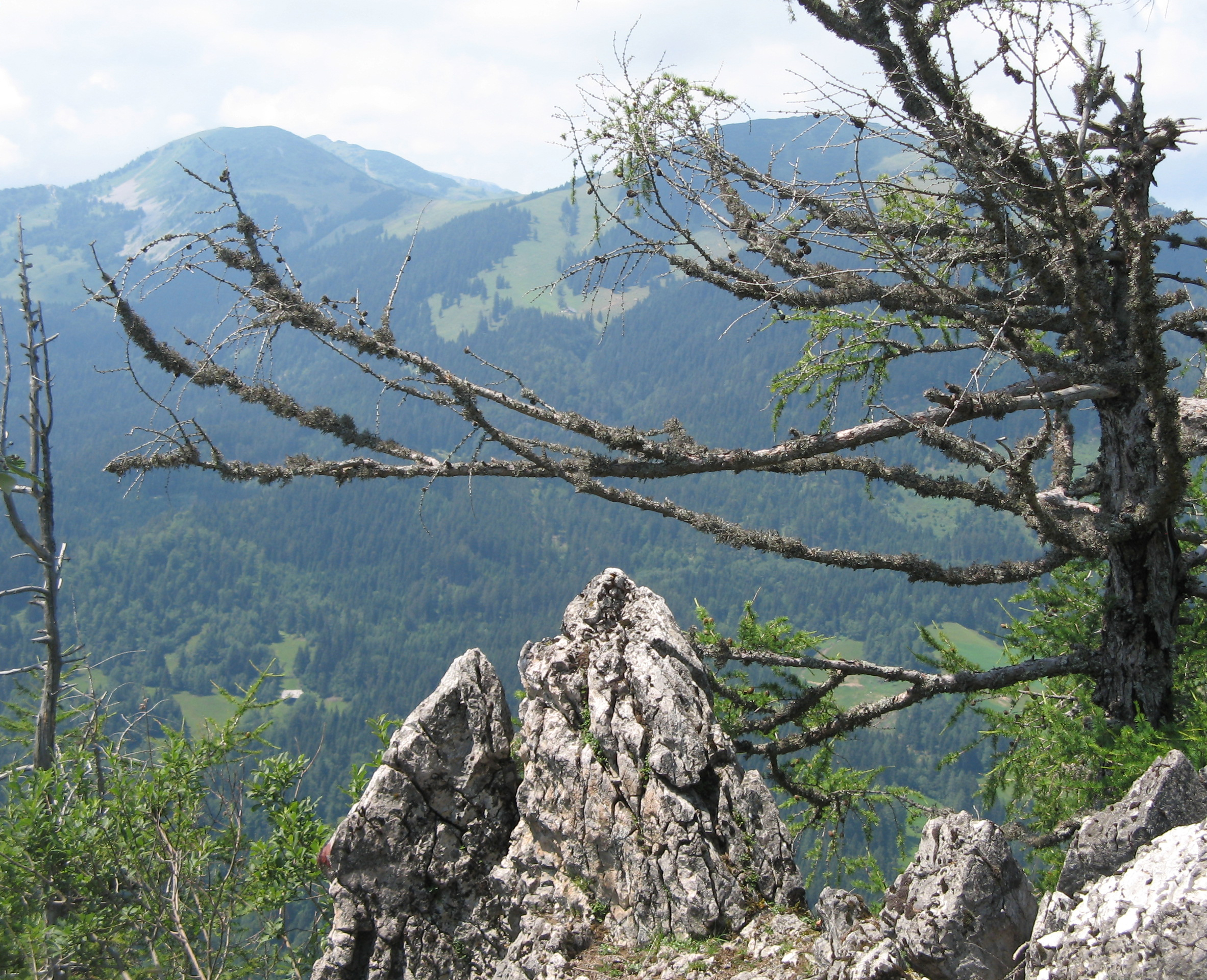 View towards Rožca (1587 m) Rosenbachsattel